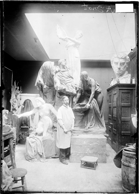 Lorado Taft standing in front of figures from his sculpture, Fountain of the Great Lakes on crates, in a room (possibly Lorado Taft Midway Studio) with other sculptures and cabinets.